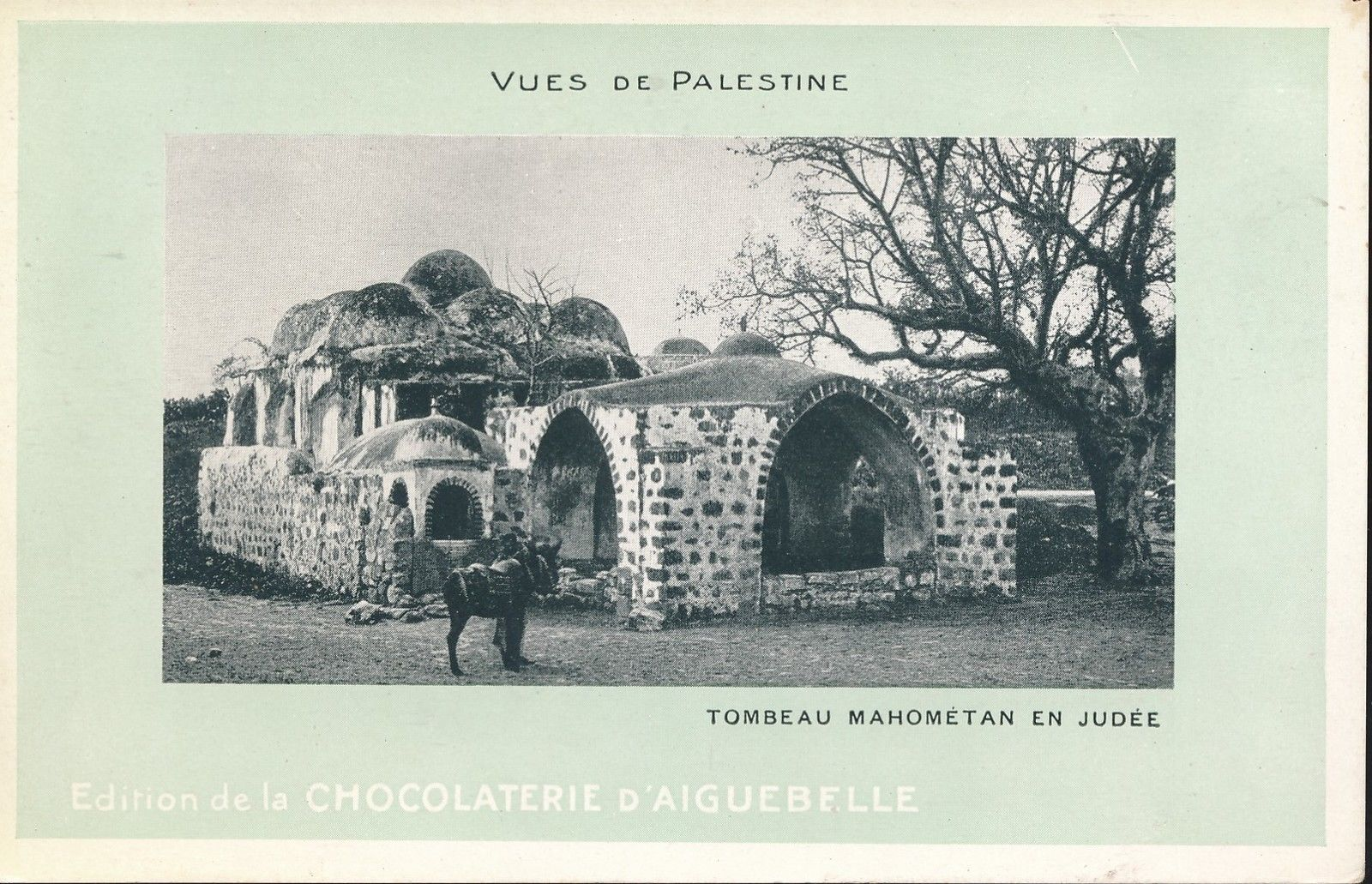 Tomb (Maqam) of Imam ´Ali, Mazur